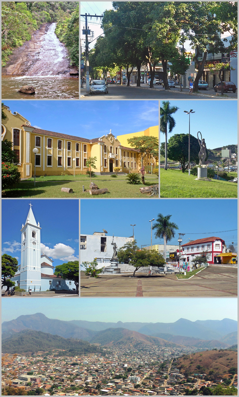 Montage of Coronel Fabriciano, Minas Gerais, Brazil.